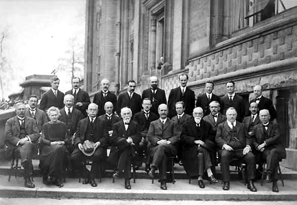 Fourth Solvay Conference, Brussels, 1924, the theme was the electrical conductivity of metals.